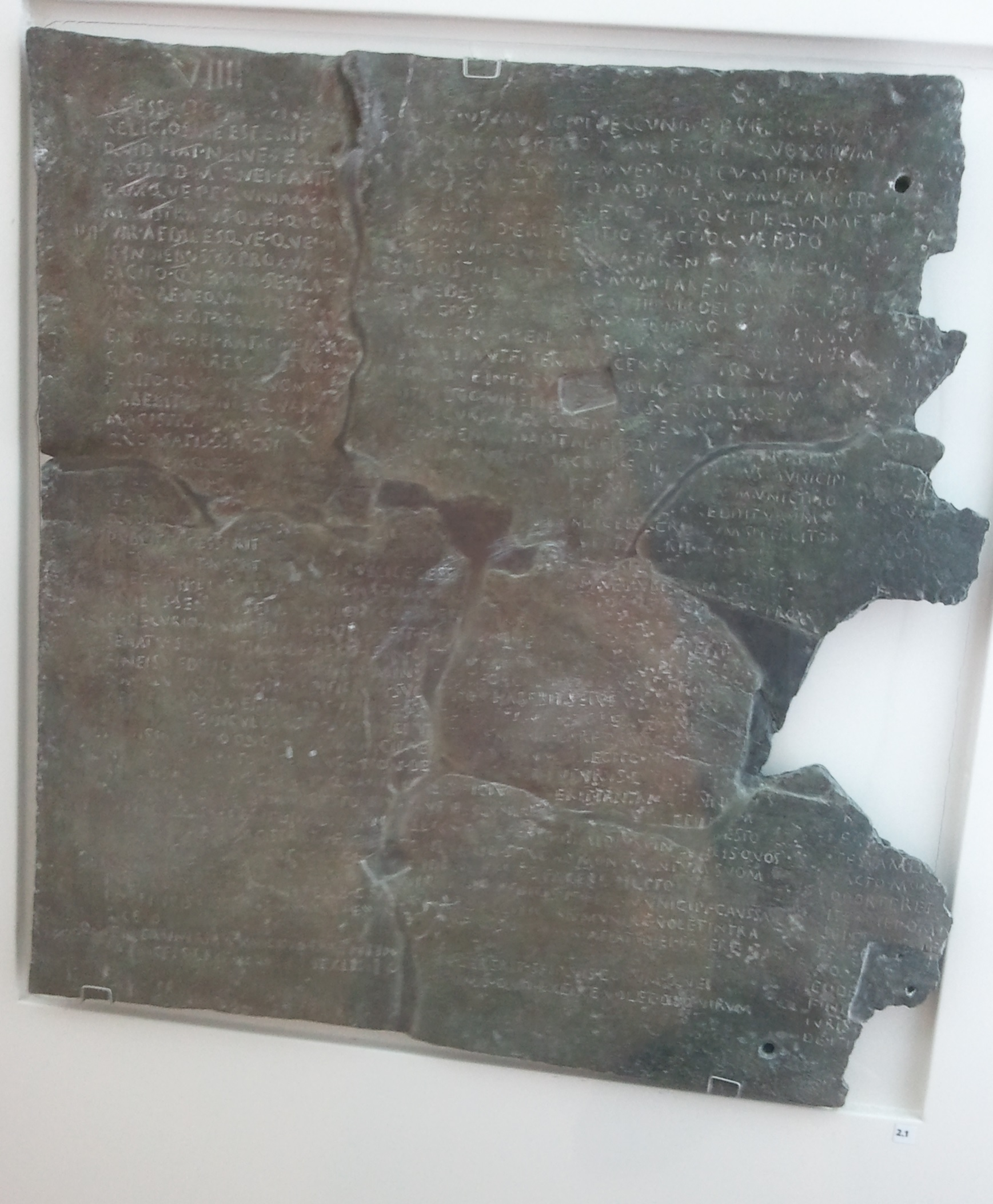 Bronze fragment of the "L e x Municipii Tarentini". Copy of original (89-62 BC), kept in the Archaeological Museum of Naples.